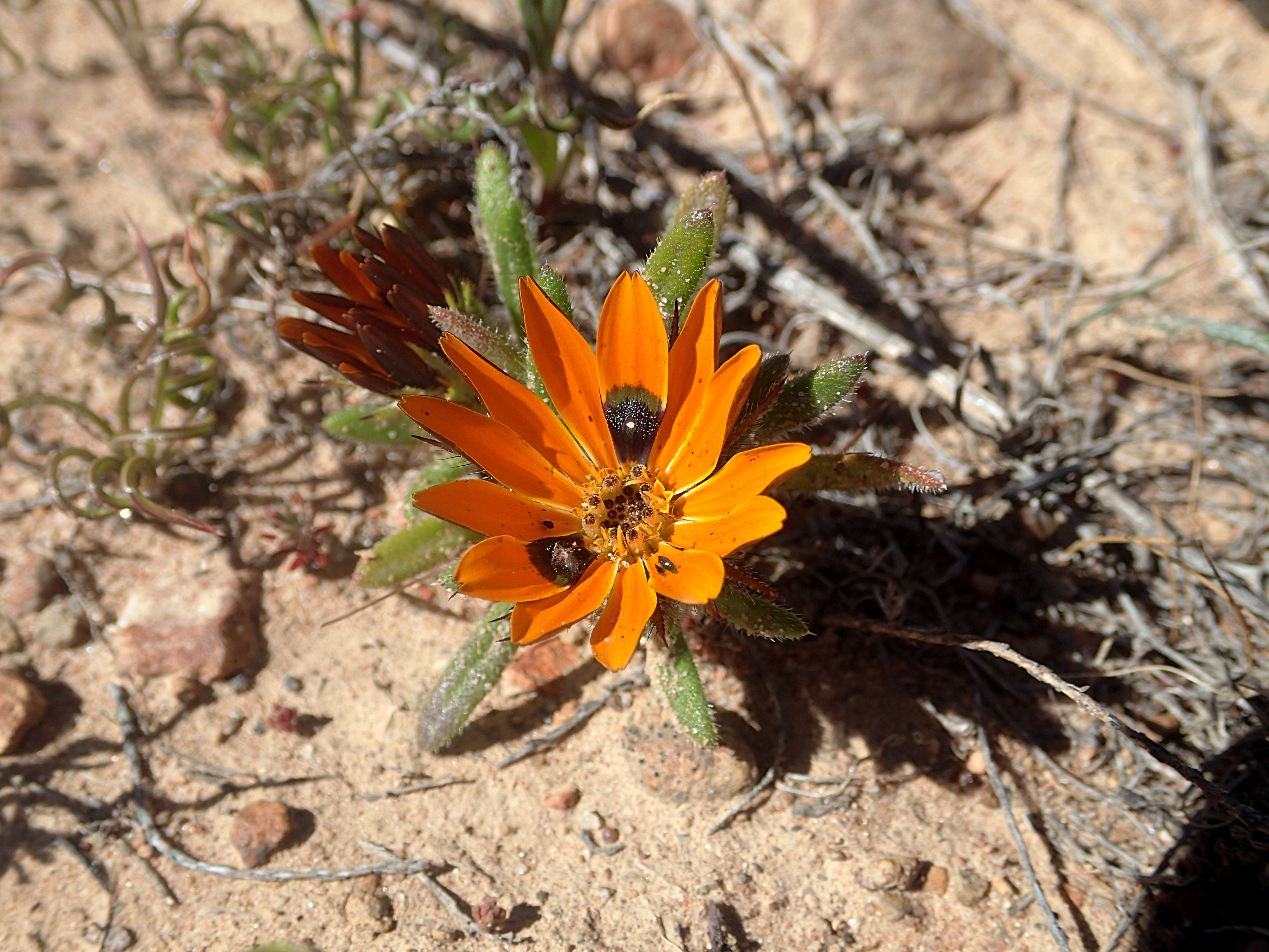 The beetle daisy Gorteria diffusa, at Hantham NBG, near Nieuwoudtville, Northern Cape, South Africa